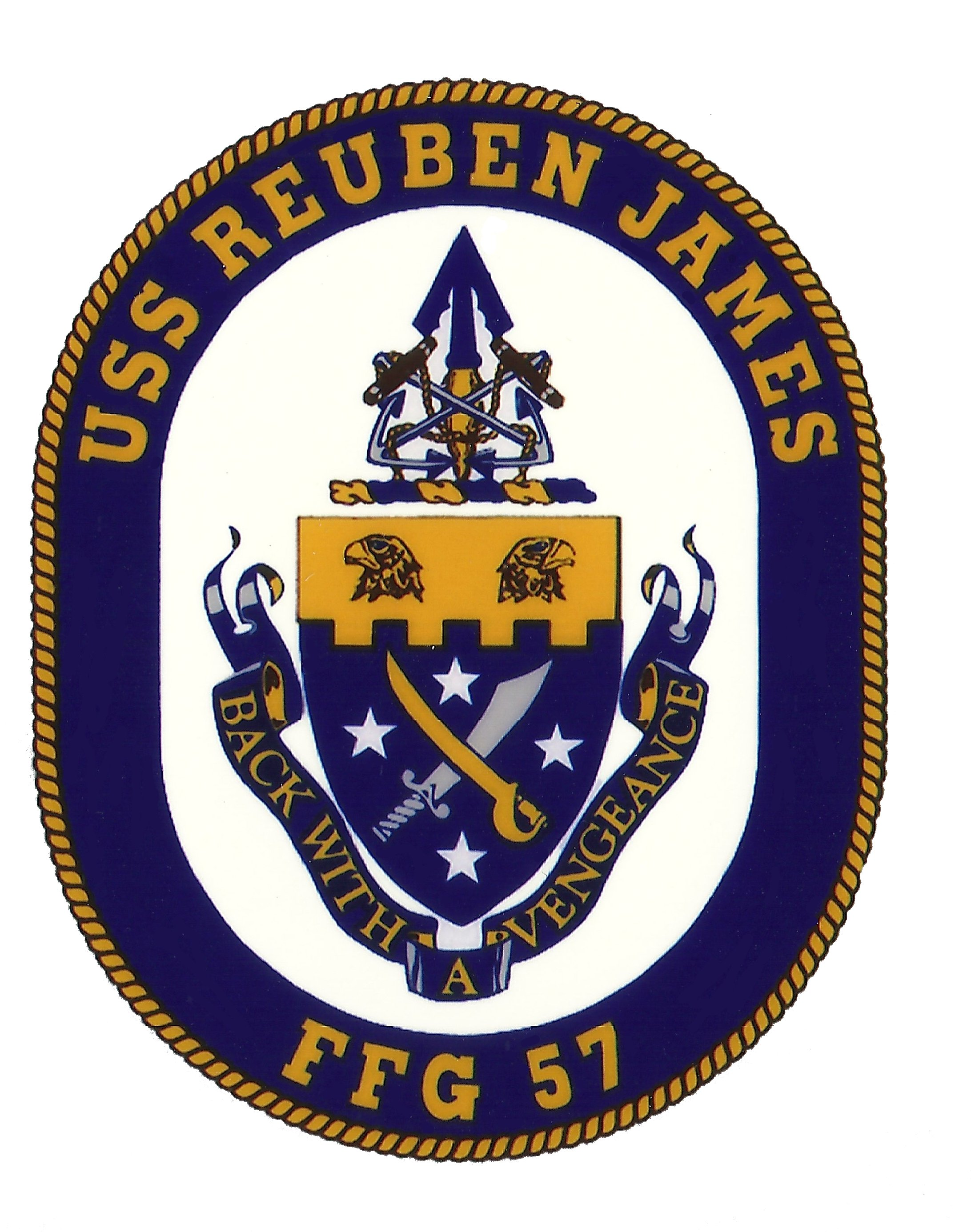 Coat of Arms USS Reuben James (FFG 57)